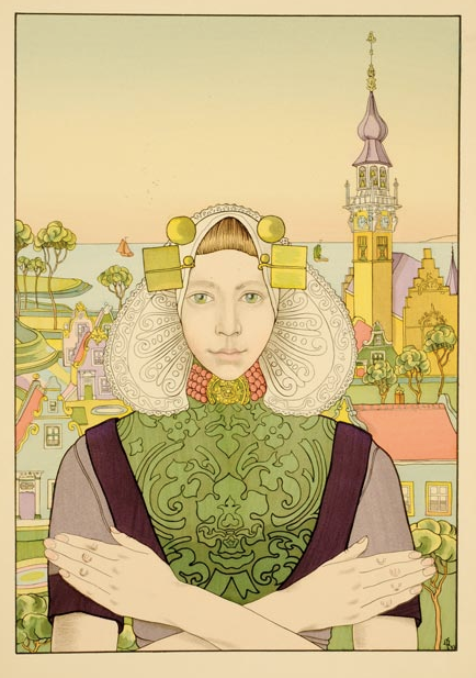 Phalènes des isles by Franz M. Melchers, lithographic print from L'Estampe moderne, vol. I, Paris, F. Champenois.